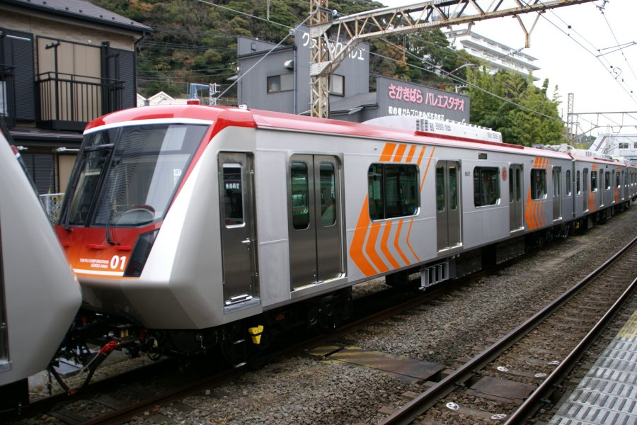 The first Tokyu 6000 series EMU at Zushi Station on delivery from Tokyu Car